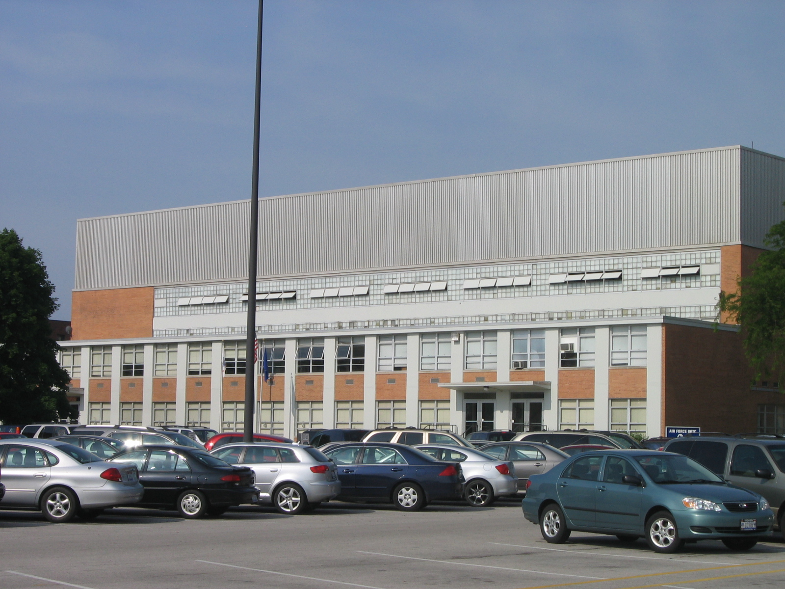 Basketball Facilities Bowling Green Basketball Gym